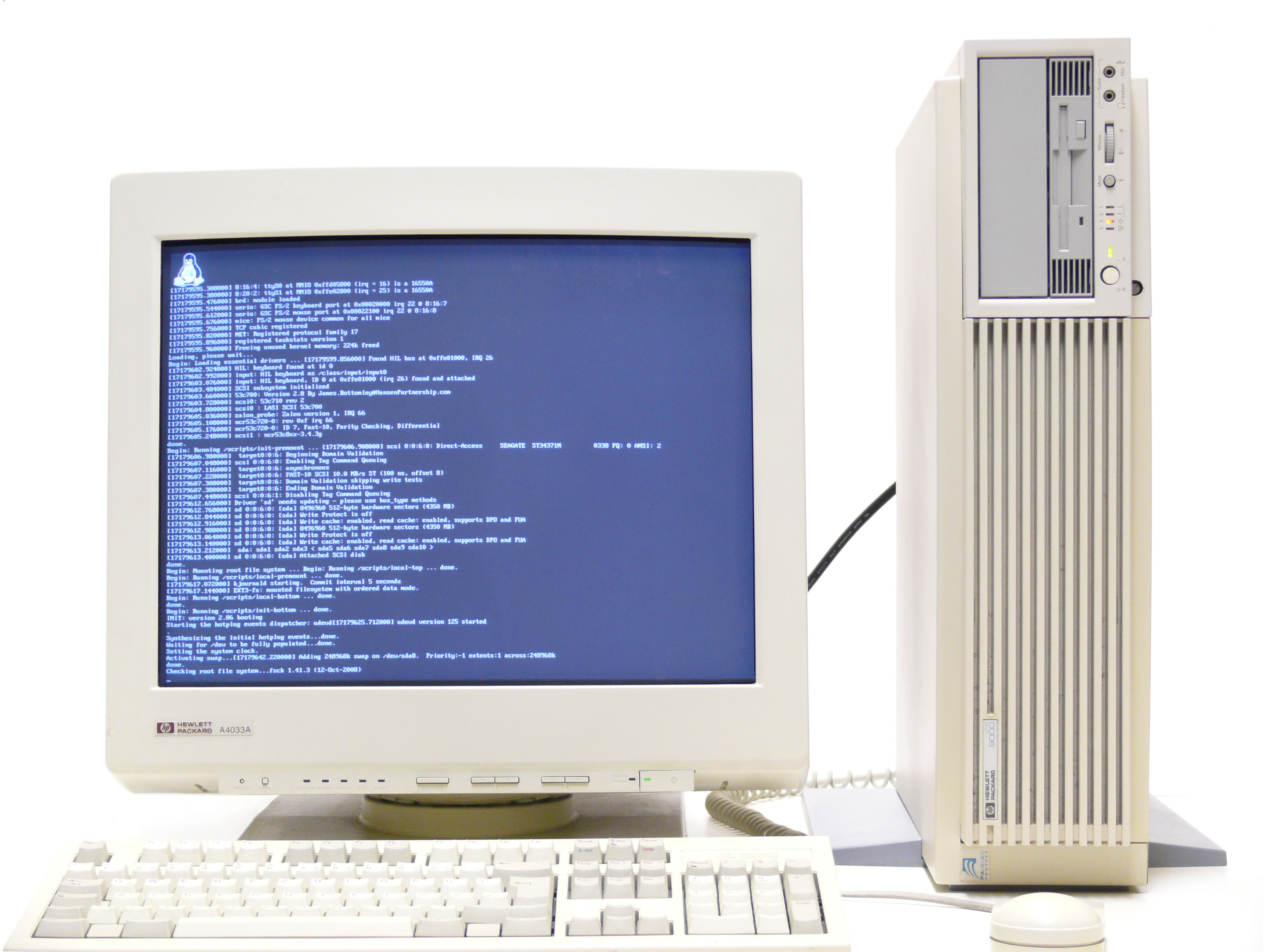 Hewlett-Packard HP9000 Unix Workstation C-Class, Model C110, PA-RISC 7200 CPU - 32 Bit - 120 MHz, max. 1 GByte RAM, SCSI2 SE, SCSI2 Fast Wide Differential, 10 MBit LAN, 16 Bit Audio, EISA, HIL, PS2, HP A4033A 20inch Color CRT, - booting Debian Linux